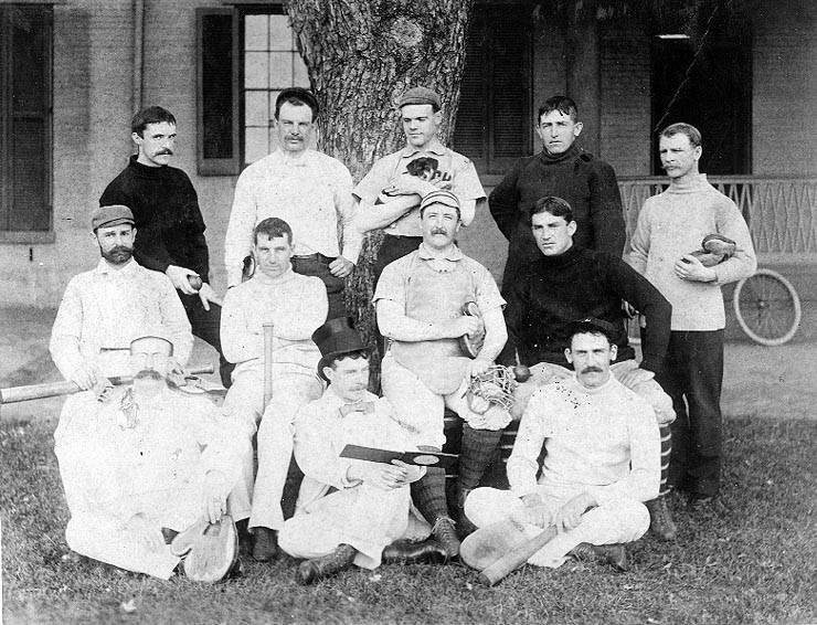 Photo #: NH 53161 U.S. Naval Academy, Annapolis, Maryland Officers' baseball team, Summer 1895. Those present are, seated in front, left to right: Assistant Engineer Herman O. Stickney; Ensign Samuel R. Hurlburt; and Ensign Ashley H. Robertson. Seated in middle row, left to right: Ensign Edward W. Eberle; Ensign William H.G. Bullard; Ensign John F. Hubbard (Catcher); and Professor Paul J. Dashiell. Standing in back, left to right: Ensign George R. Marvell; Lieutenant Francis J. Haeseler; Assistant Engineer Horace W. Jones (holding puppy); Second Lieutenant Charles F. Macklin, USMC; and Passed Assistant Surgeon Stephen S. White.